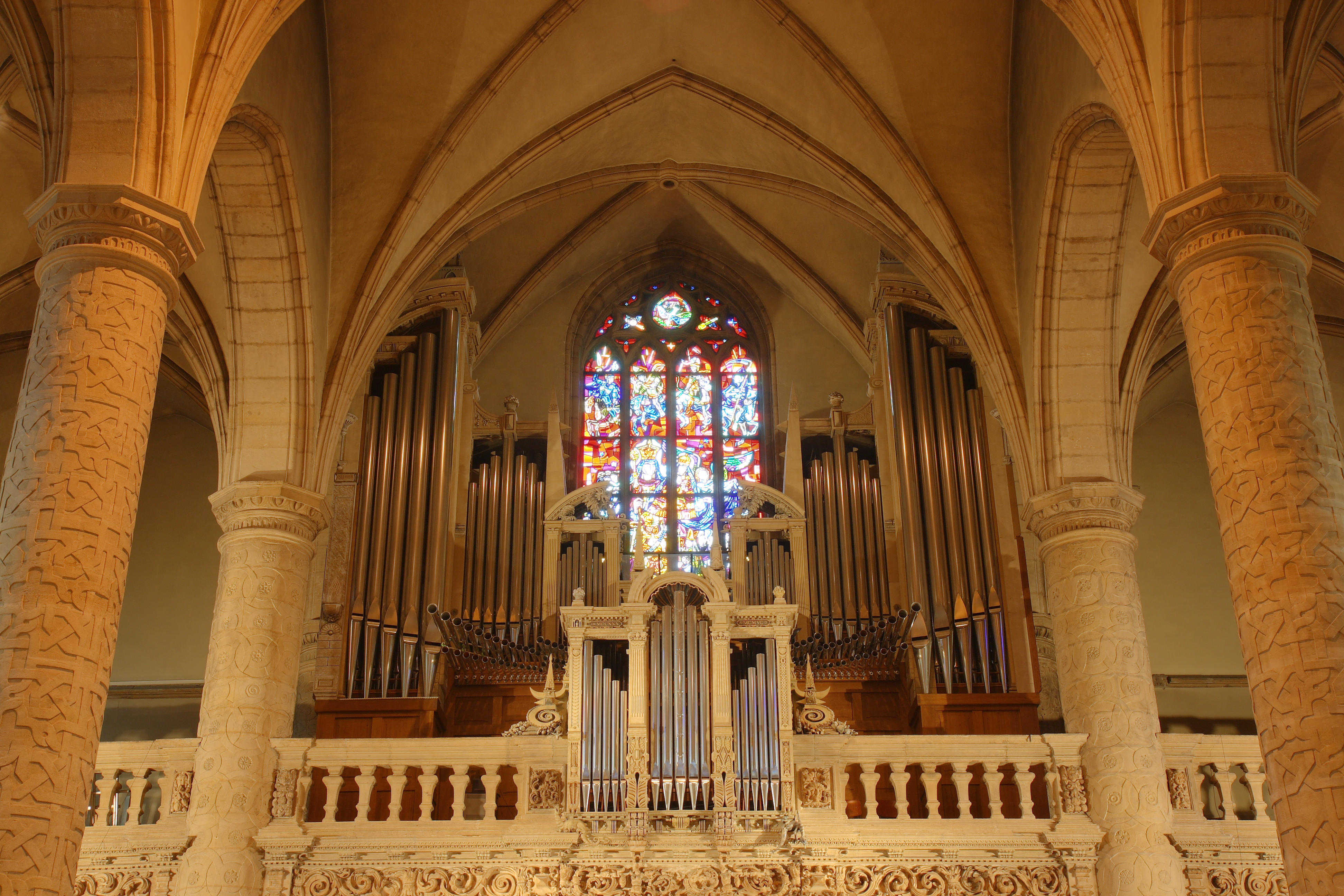 Organ of the Notre-Dame Cathedral in Luxembourg. This picture is a tone mapped version made from three different exposures pictures taken from the same location.